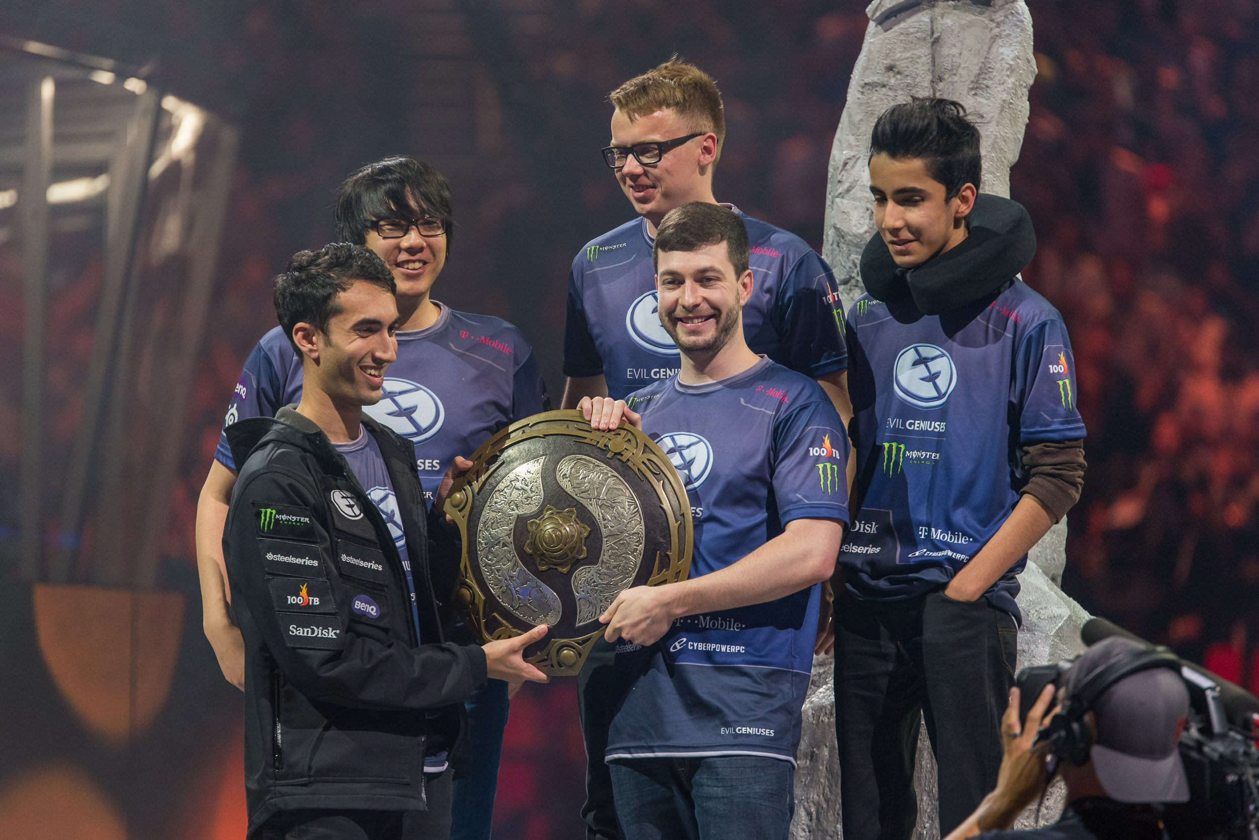 UNiVeRsE, Aegis of Champions, Fear, Aui_2000, ppd, SumaiL, Evil Geniuses, Key Arena and The International 2015